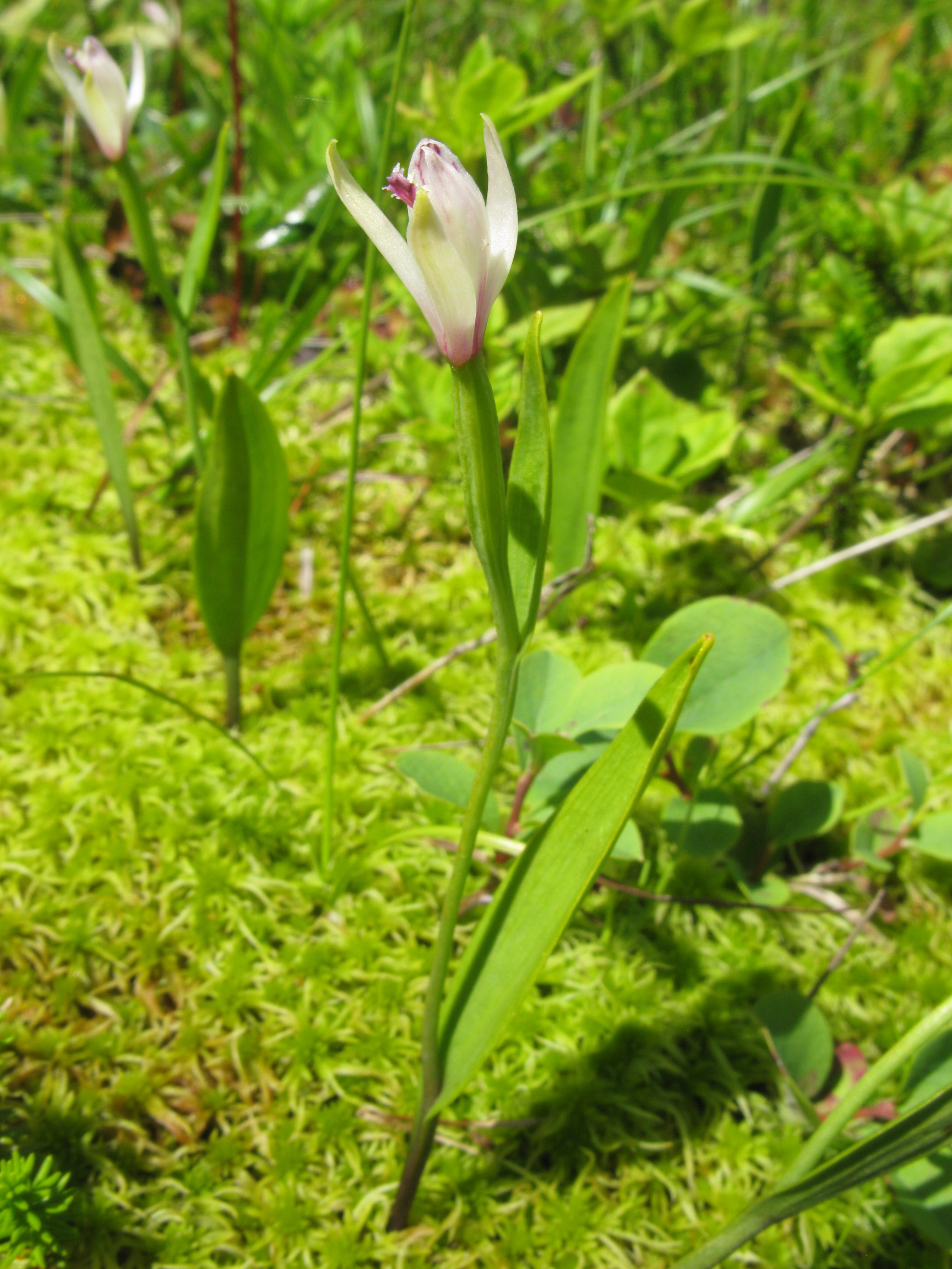 Pogonia minor, Nihonmatsu city, Fukushima pref., Japan